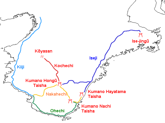 Map of Kumano Kodo, of the Sacred sites and pilgrimage routes in the Kii mountain range